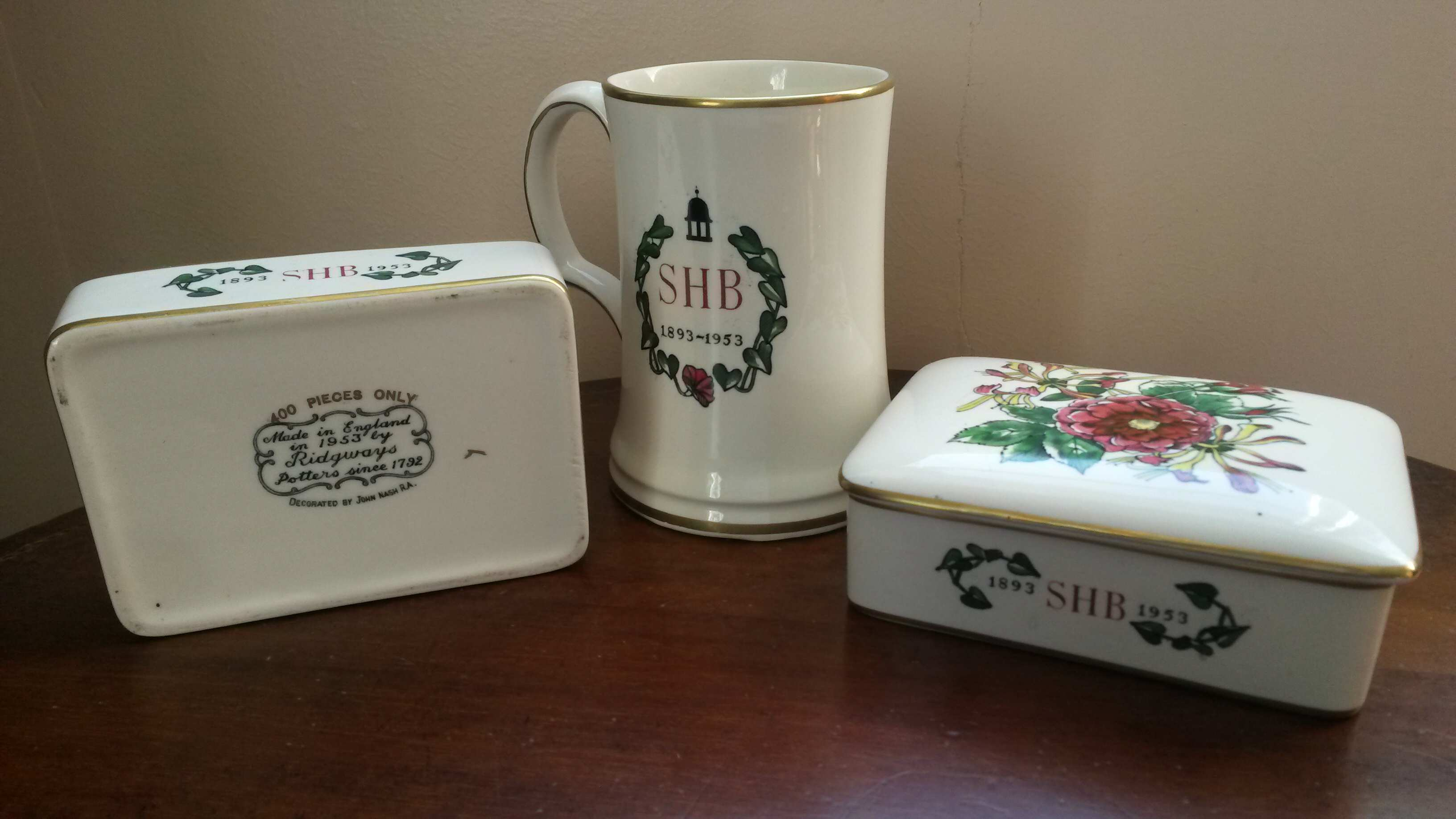 Commemorative china produced for S H Benson Ltd celebrating 60th anniversary of the company's founding. 1893-1953. Manufactured by Ridgways potters, artwork by John Nash RA.